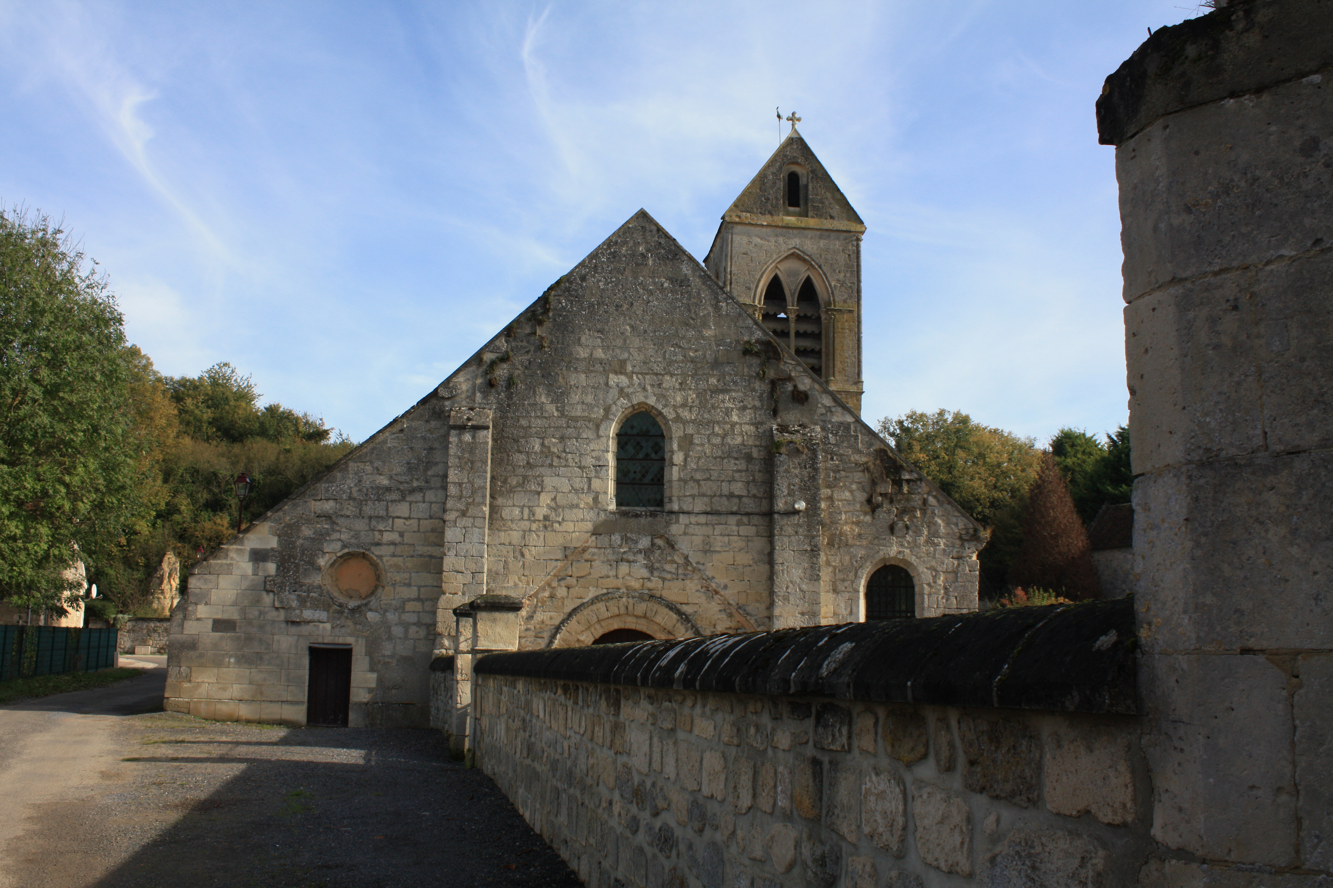 Église Saint-Martin de Maast-et-Violaine 4